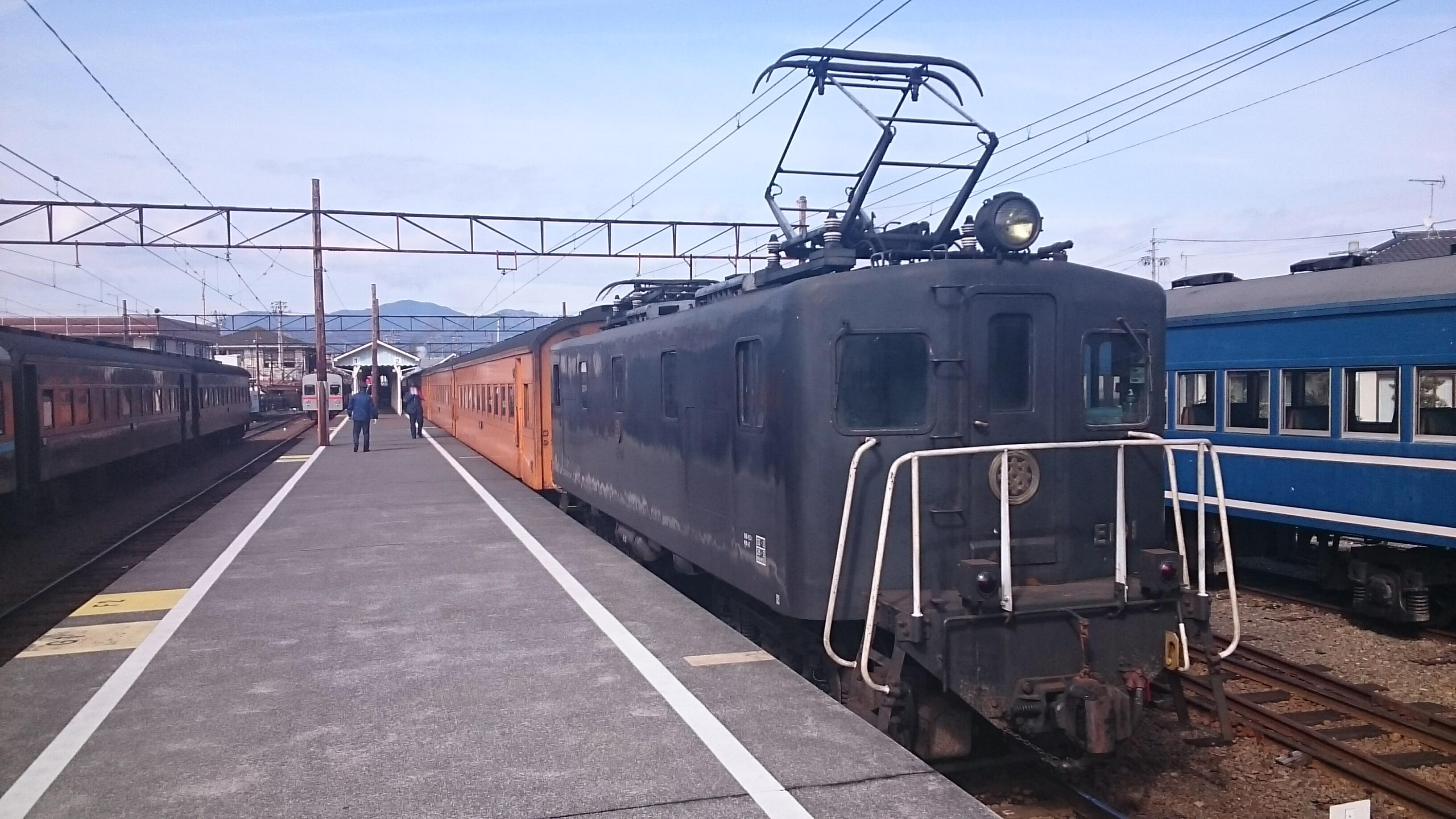 Oigawa Railway E101 electric locomotive at Shin-Kanaya Station